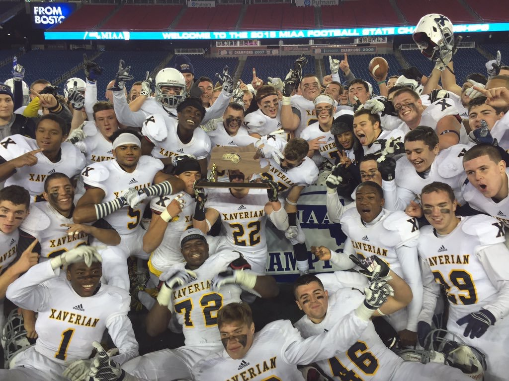 Xaverian Hawks celebrating 2015 Super Bowl victory at Gillette Stadium in Foxboro, Massachusetts